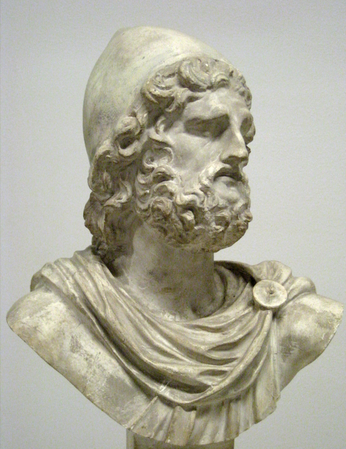 Cast from Vatican Odysseus